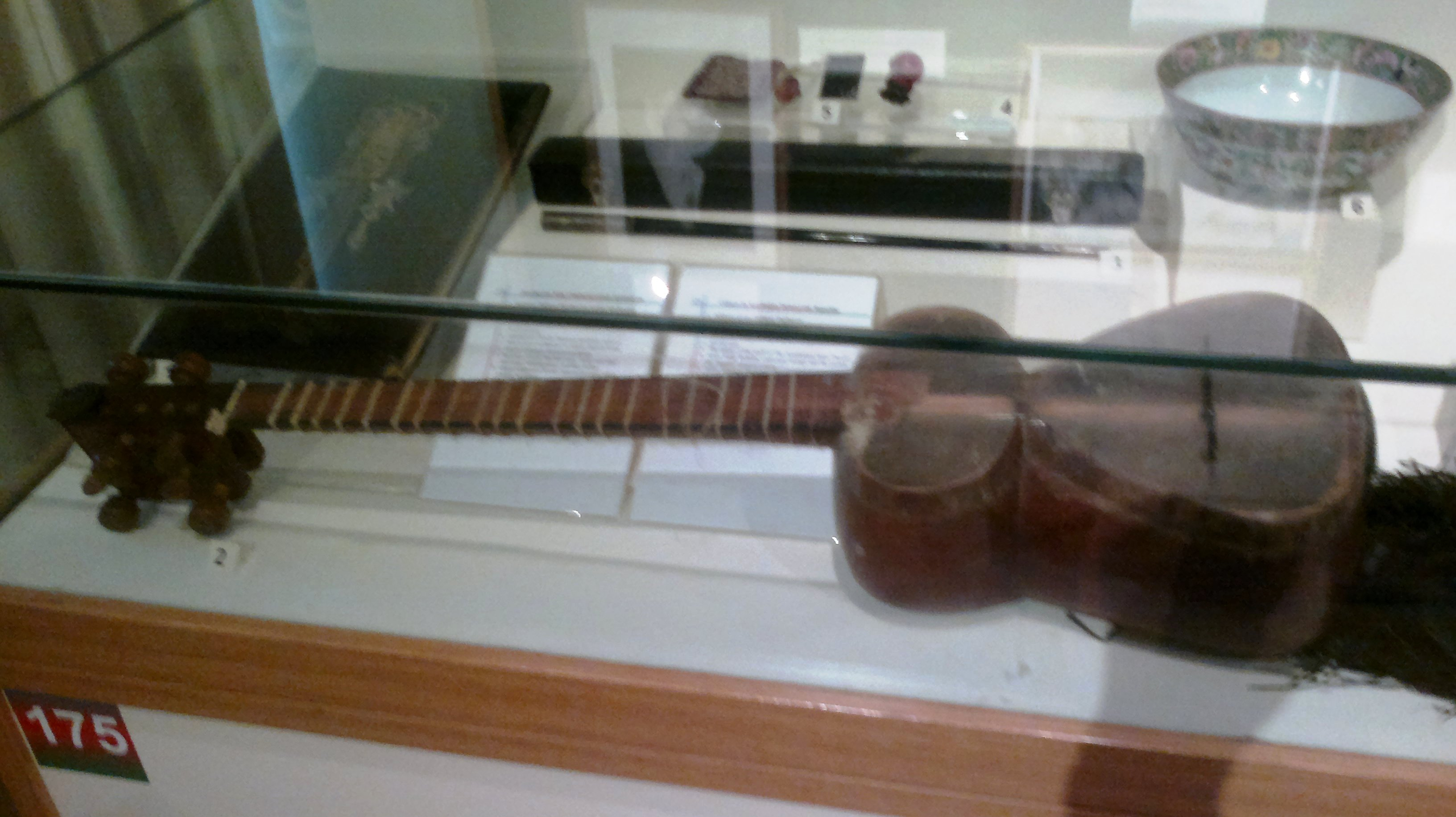 Tar of Zulfugar Hajibeyov. Museum of History of Azerbaijan.